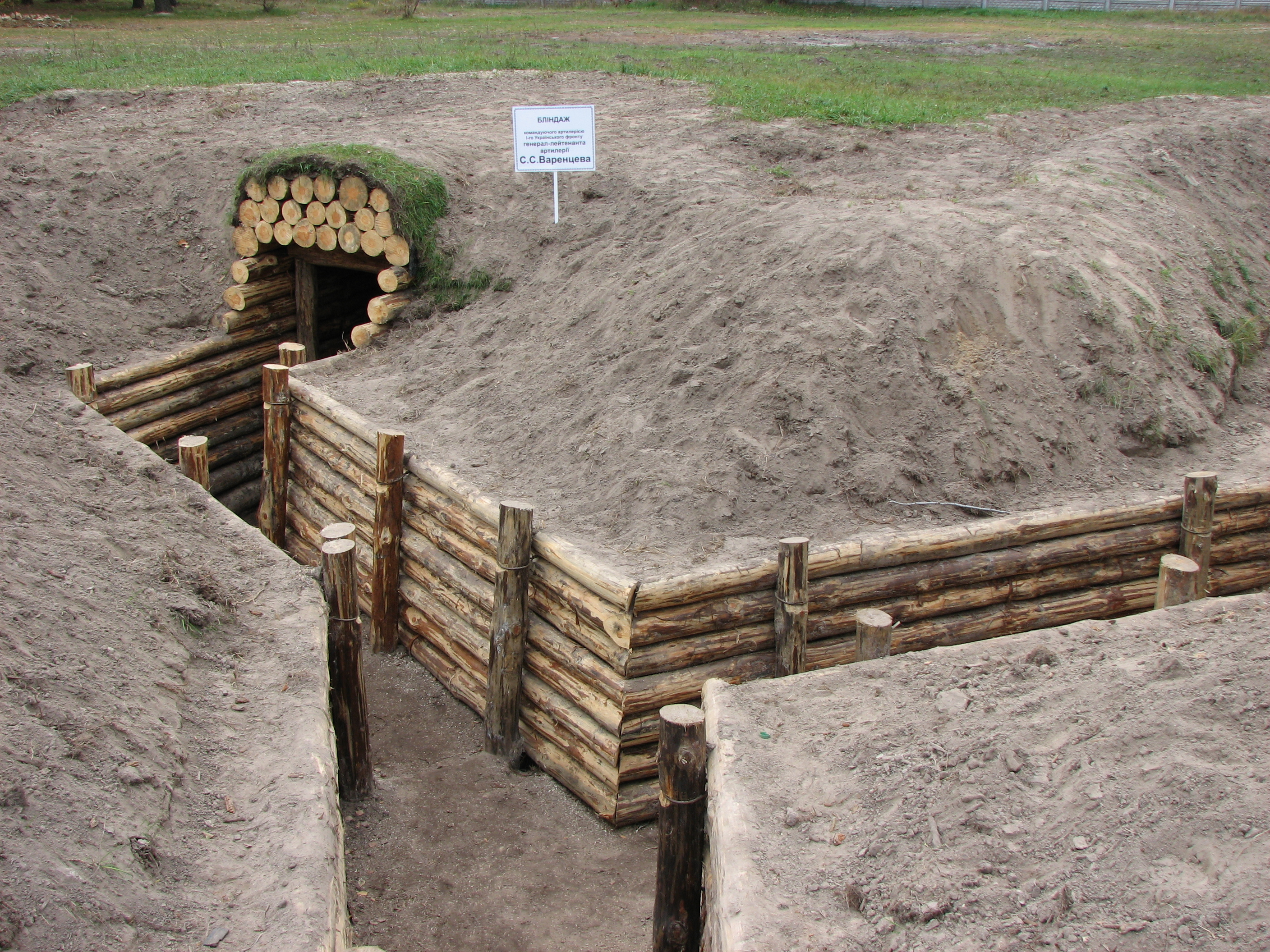 Museum-preserve is Battle for Kyiv in 1943 years